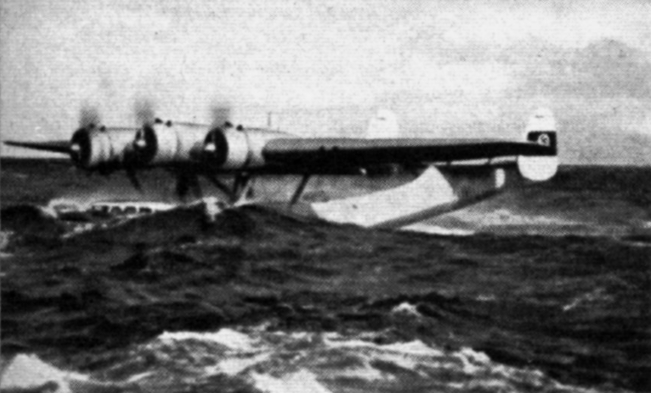 A Dornier Do 24 flying boat during trials on the Bodensee (Lake Constance).